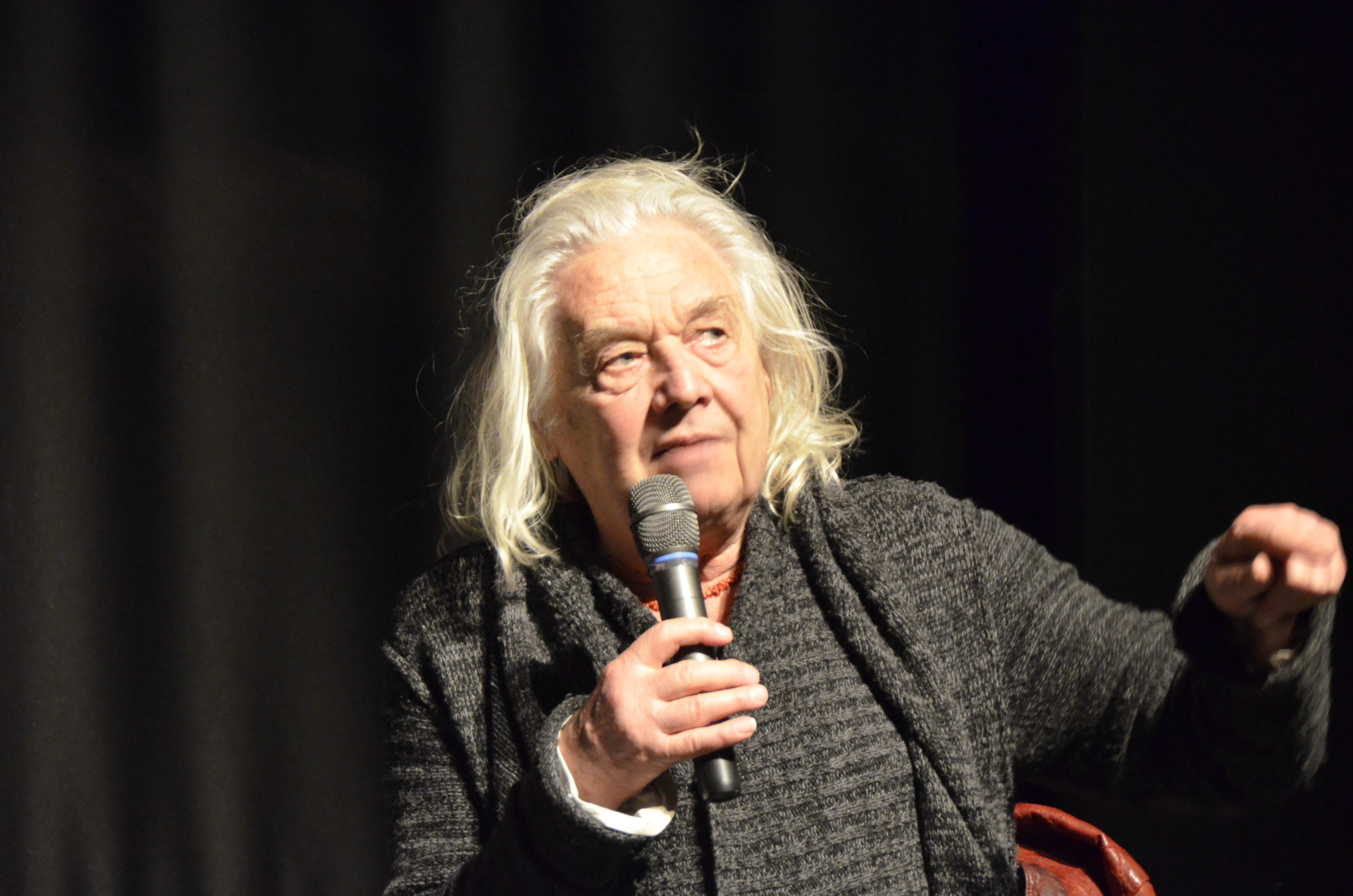 Willy Praml at Theater Willy Praml.